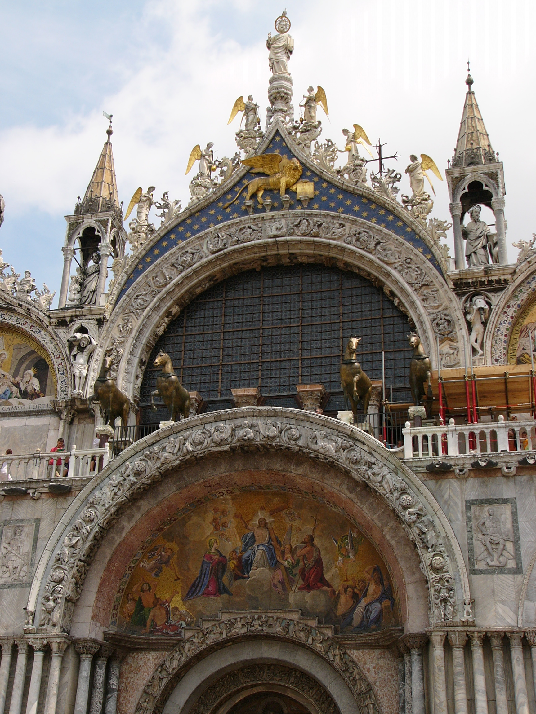 Detail Basilica di San Marco in Venice